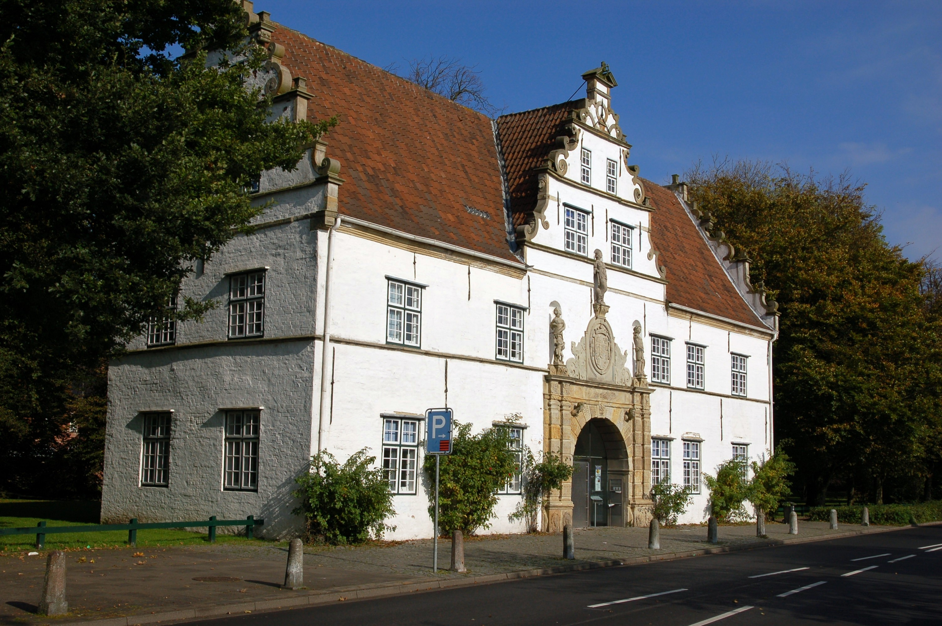 Husum Castle, gate house, Germany